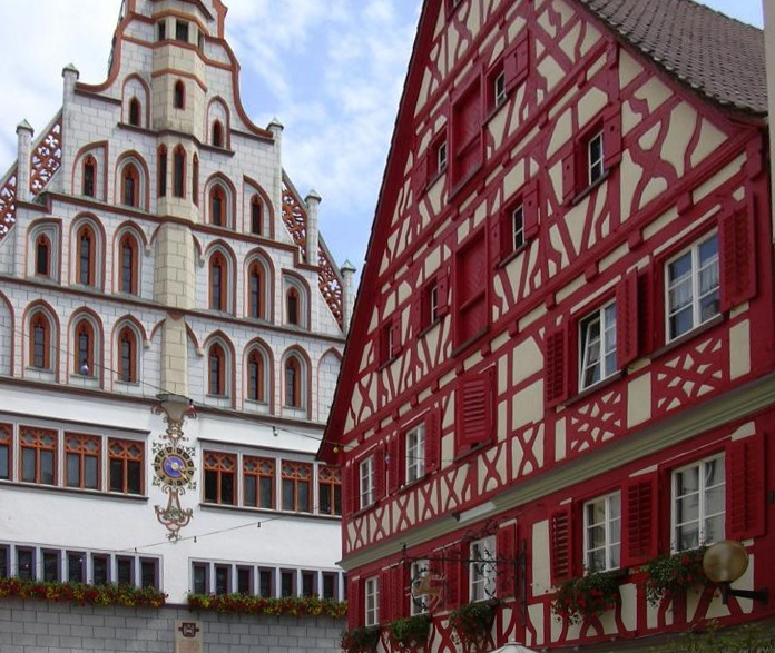 Town hall and "Hirschen" inn in Bad Waldsee, Germany